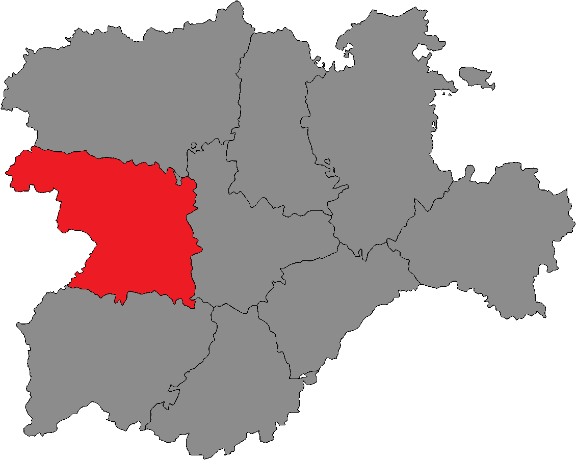 Cortes of Castile and León district of Zamora.